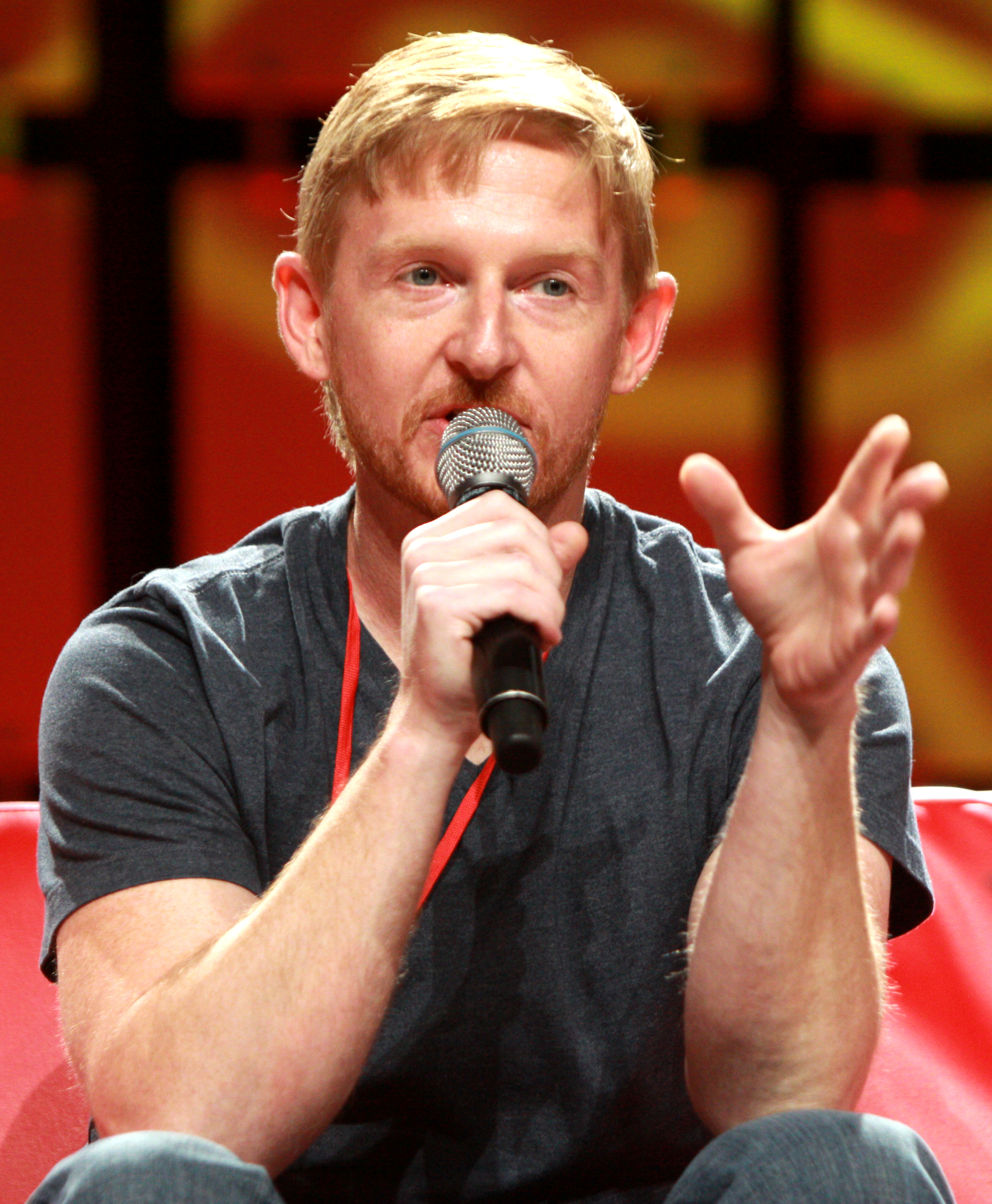 Jerry Jewell at the 2013 Phoenix Comicon in Phoenix, Arizona.